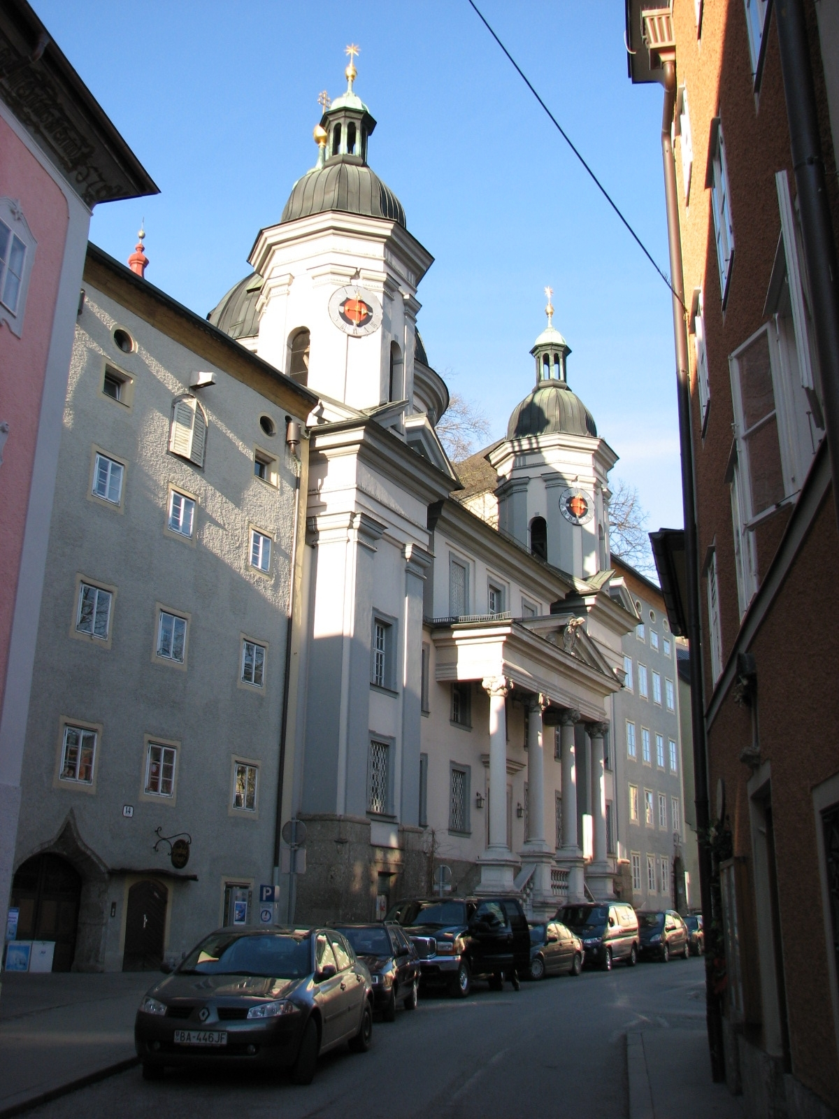 Church of St. Erhard, Salzburg, Austria